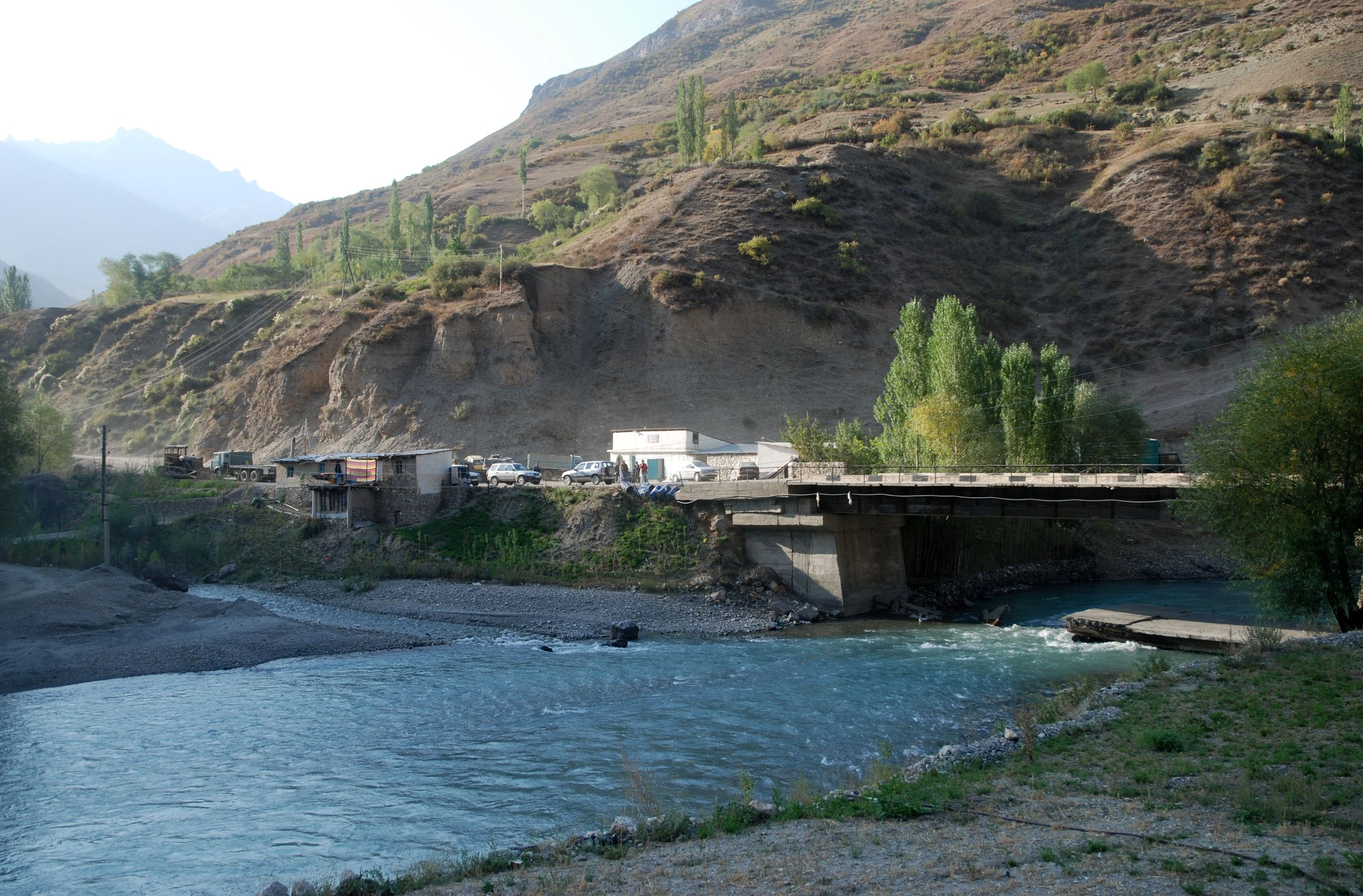 Anzob, Yaghnob bridge